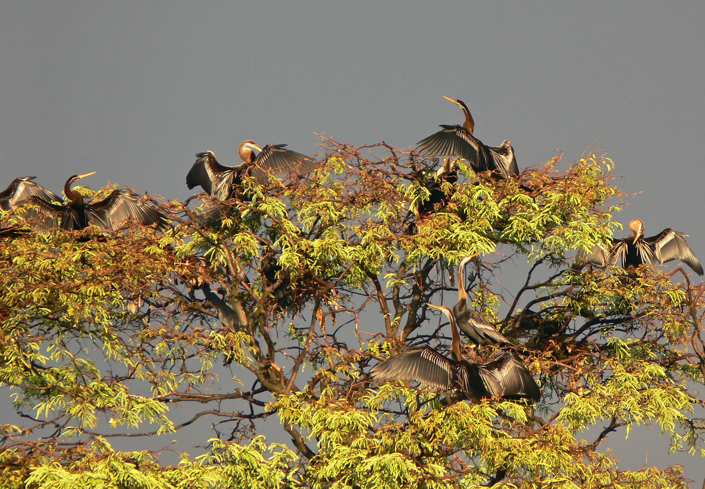 Snake birds nesting. At Kallettumkara, Kerala.